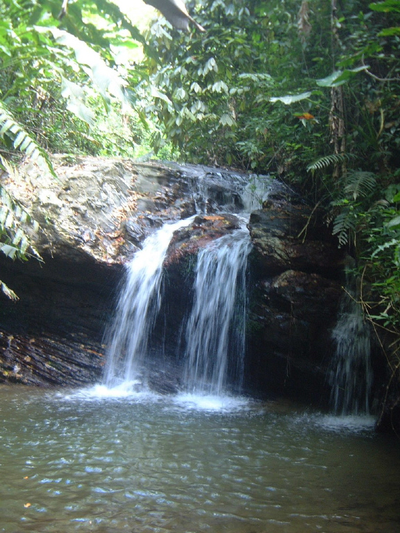 waterfall in the grounds, my image